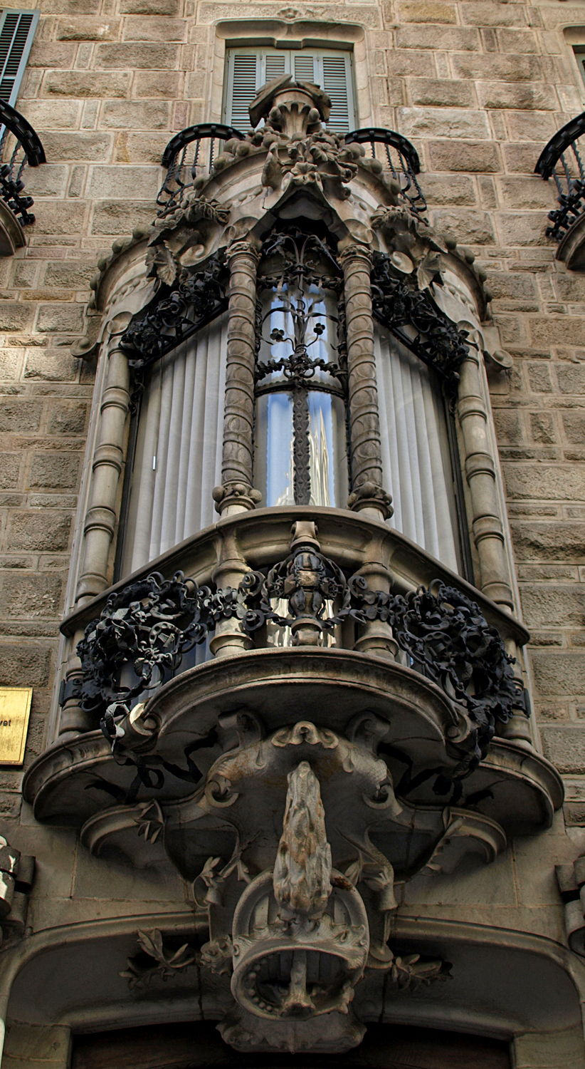 Casa Calvet - Catalan Modernisme (Antonio Gaudí, 1900)